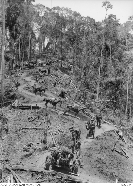 Men leading pack horses and mules loaded with supplies down the precipitous curving track from the end of the road down into Uberi valley over which troops and supplies were taken to our forward positions in the Owen Stanley Ranges. In the foreground may be seen a 25-pounder gun that is being man-hauled through the valley to Imita Ridge.